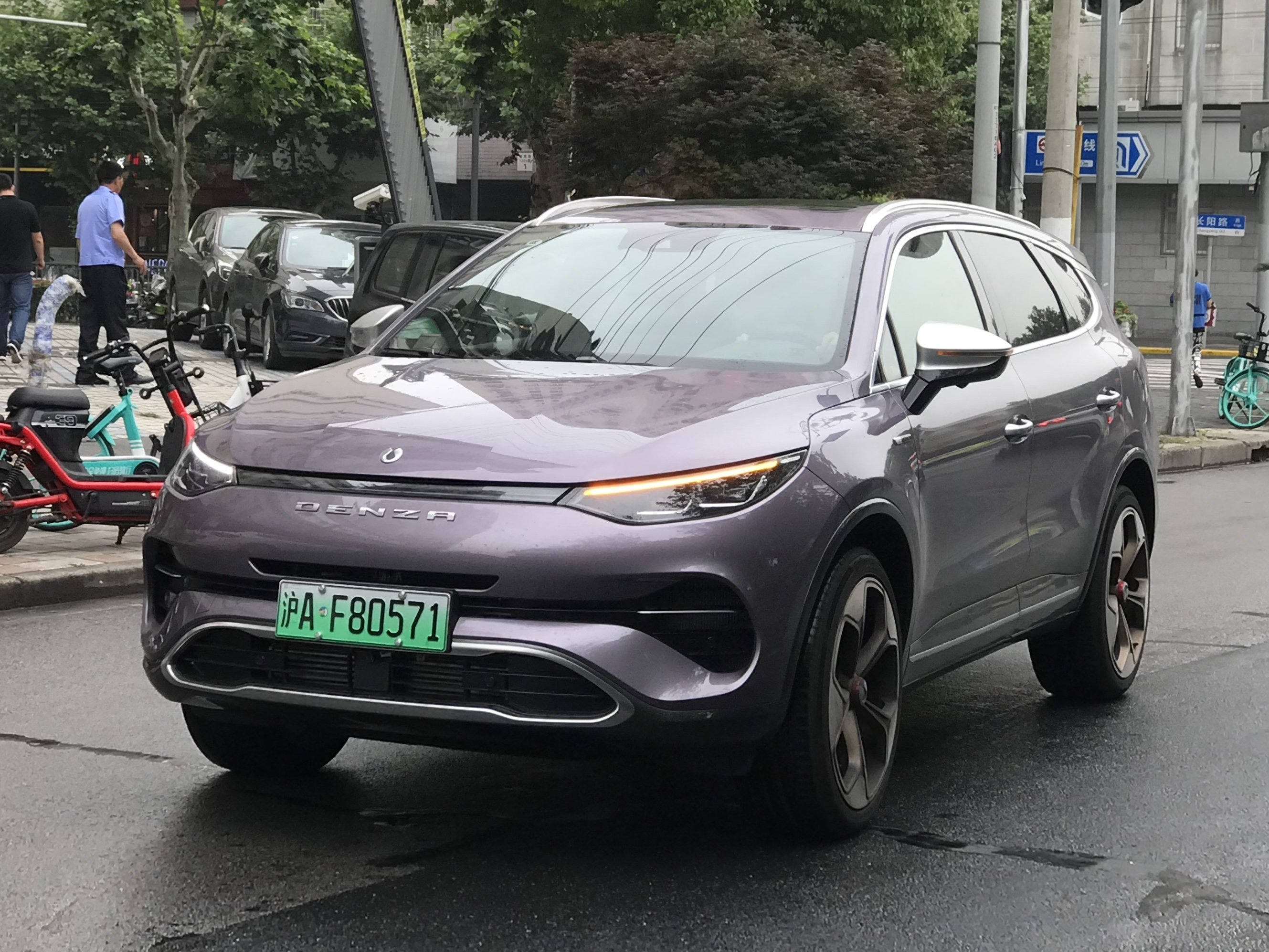 Denza X front